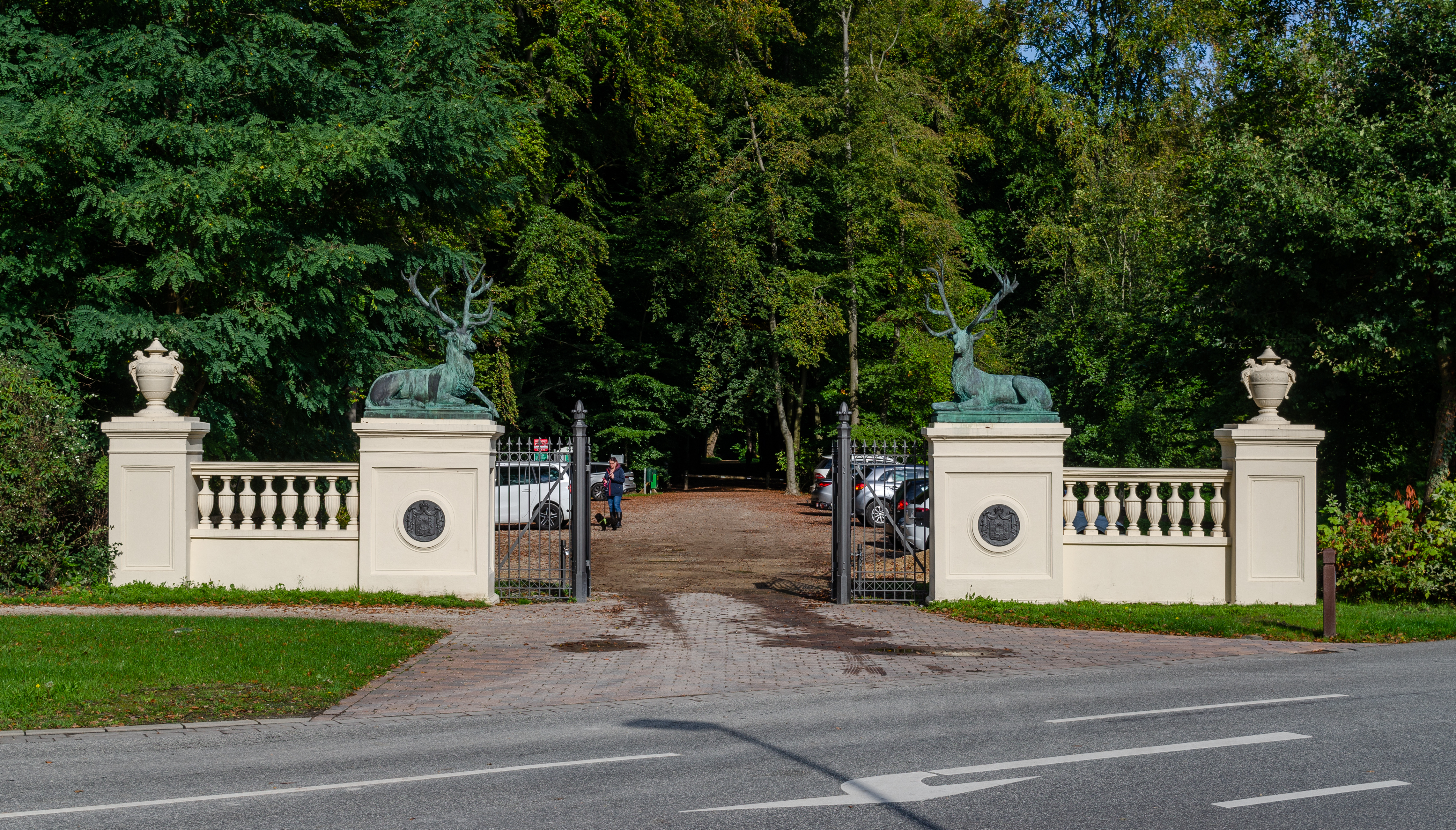 Rastede (Lower Saxony, Germany) – Rastede Palace – park – deer gate